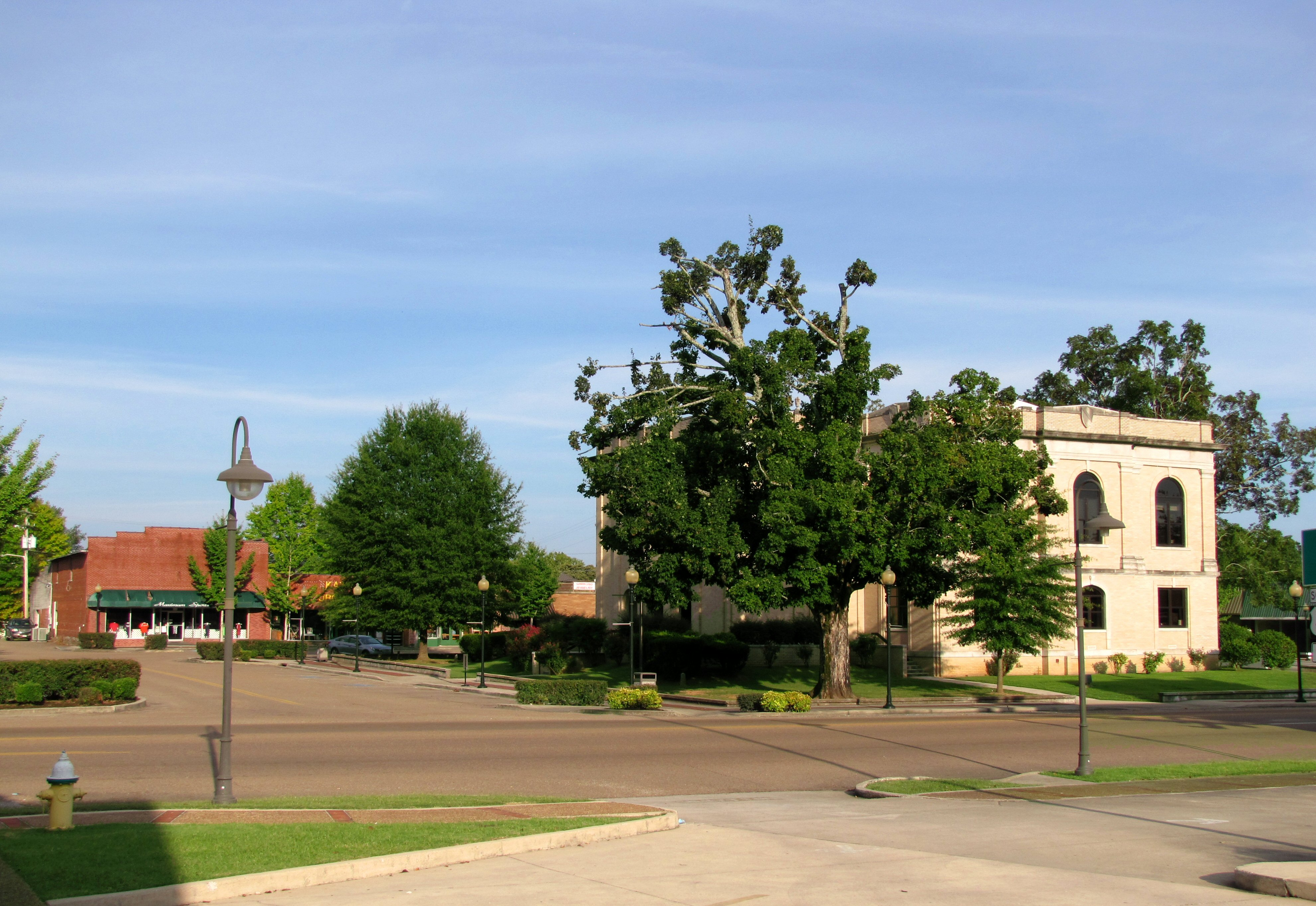 Courthouse square in Jasper, Tennessee, United States, viewed from the northwest (corner of Betsy Pack Dr. and 1st St.). The Marion County Courthouse is on the right.